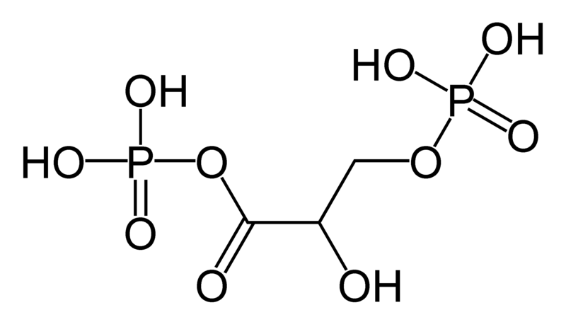 Chemical structure of en:1,3-bisphosphoglycerate. High-resolution b/w PNG; ChemDraw / Irfanview.